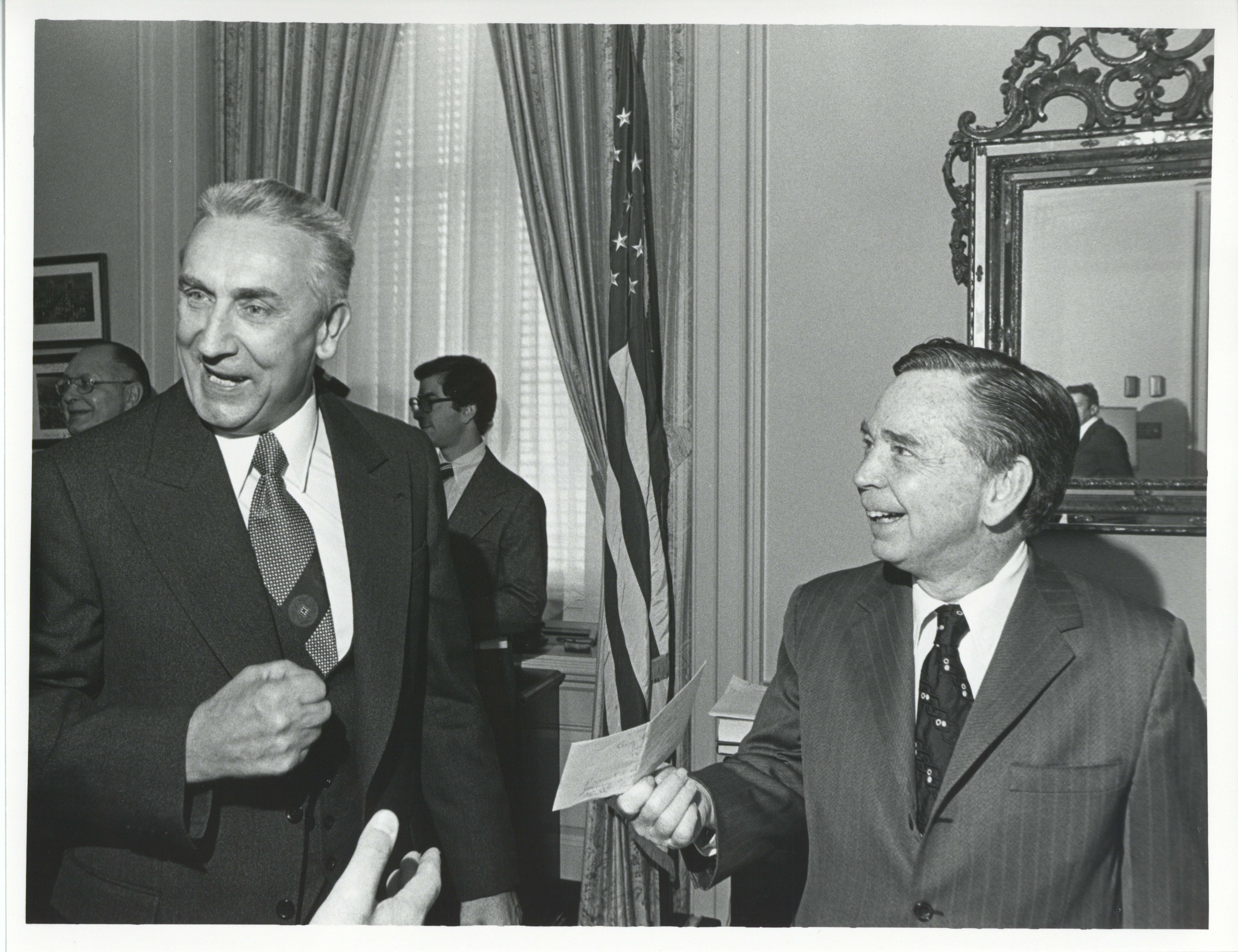 Carl Albert speaking with Polish First Secretary Edward Gierek. October 9, 1974